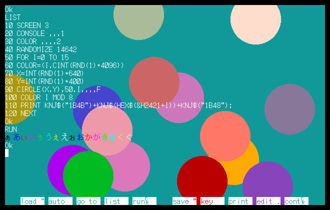 In NEC PC-98, text plane and graphics plane are isolated. They are mixed by a multiplexer circuit. The screenshot displays 8 color characters and 16 color background drawing.